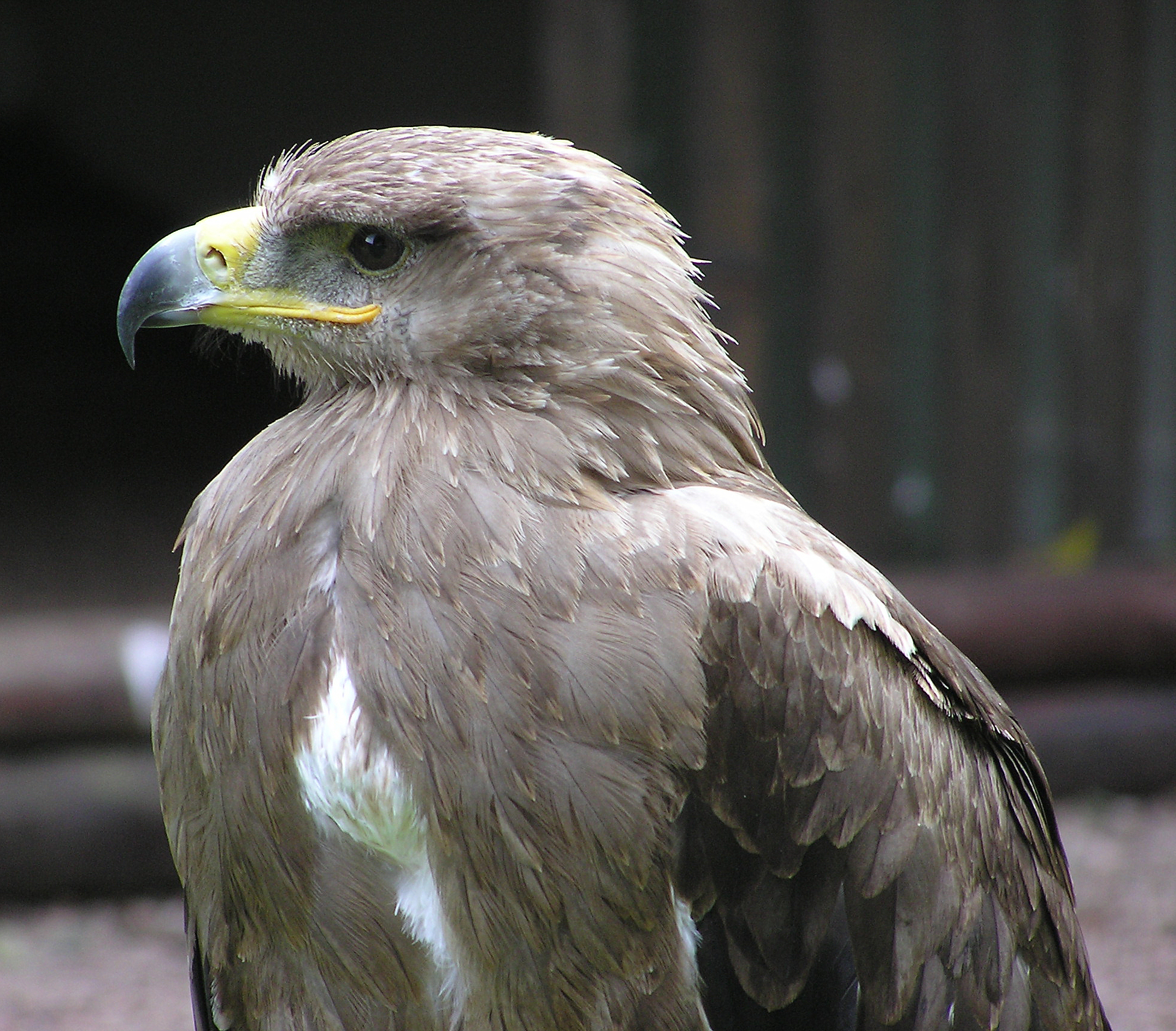 Tawny Eagle (Aquila rapax) in close-up at Combe Martin Wildlife and Dinosaur Park, North Devon, England.